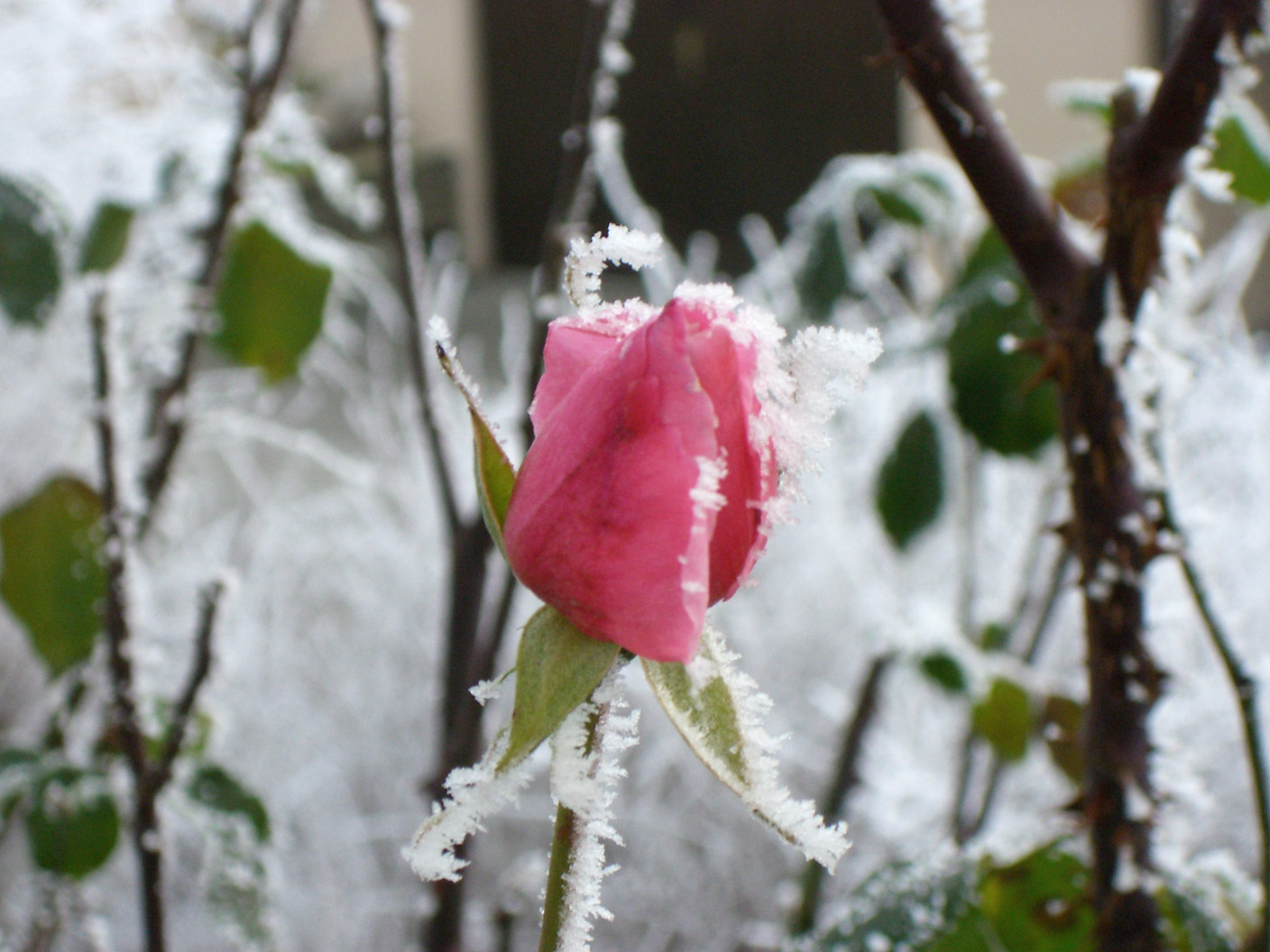 A rose covered with frost.